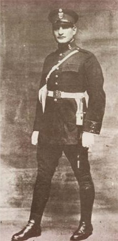 Infantry Guard (Police on foot) of the Security Corps of the Republic between the years 1923 - 1937